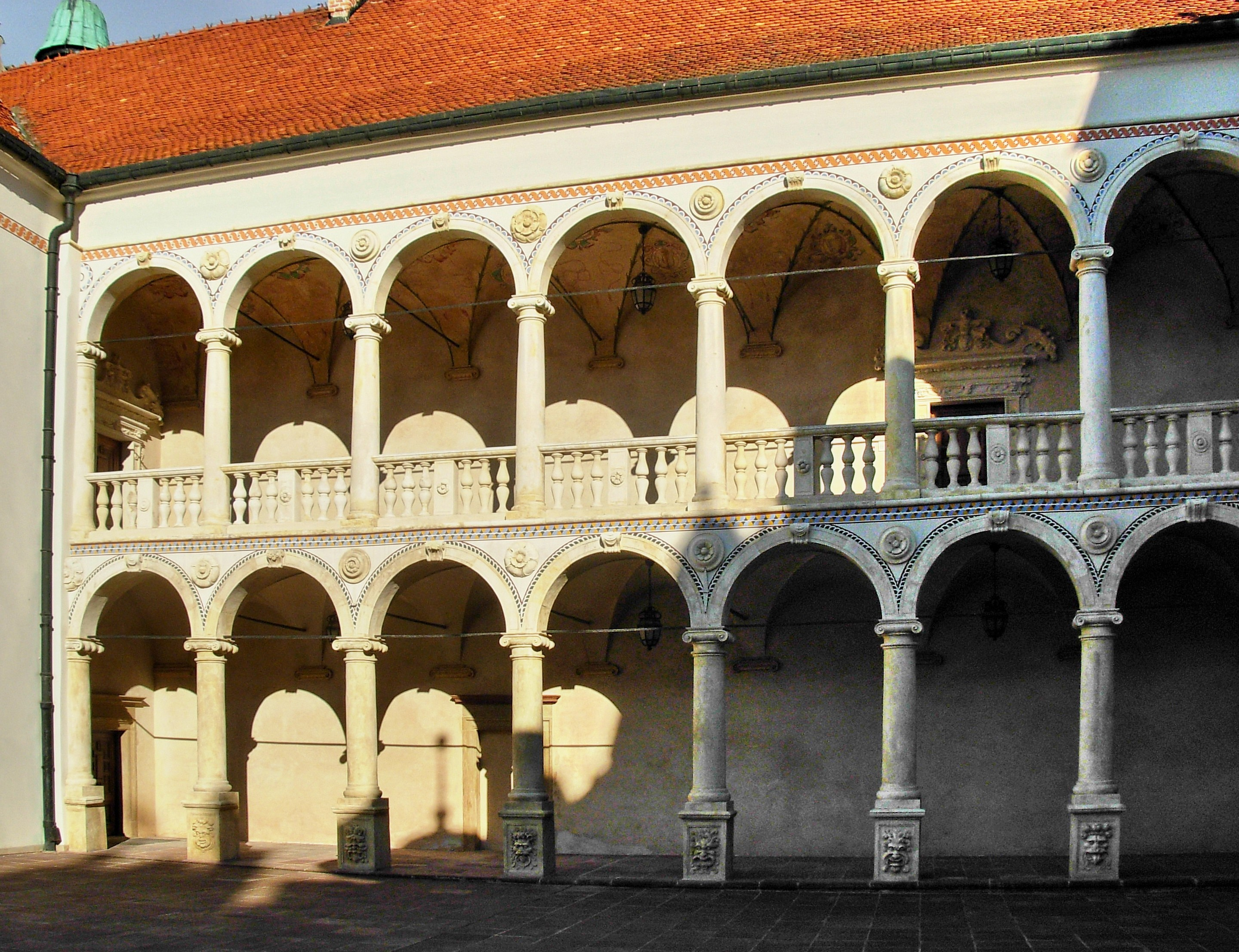 Arcade around the Courtyard of Baranów Sandomierski Castle, in the style of late Renaissance Polish Mannerism, in the Subcarpathian Voivodship, south-east Poland.